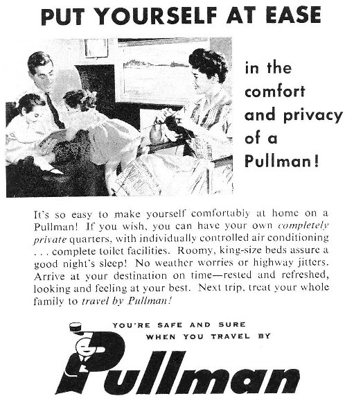 Advertisement for the Pullman Company's sleeping car service, appearing in the December 15, 1962, time table of the Seaboard Railroad (U.S.)